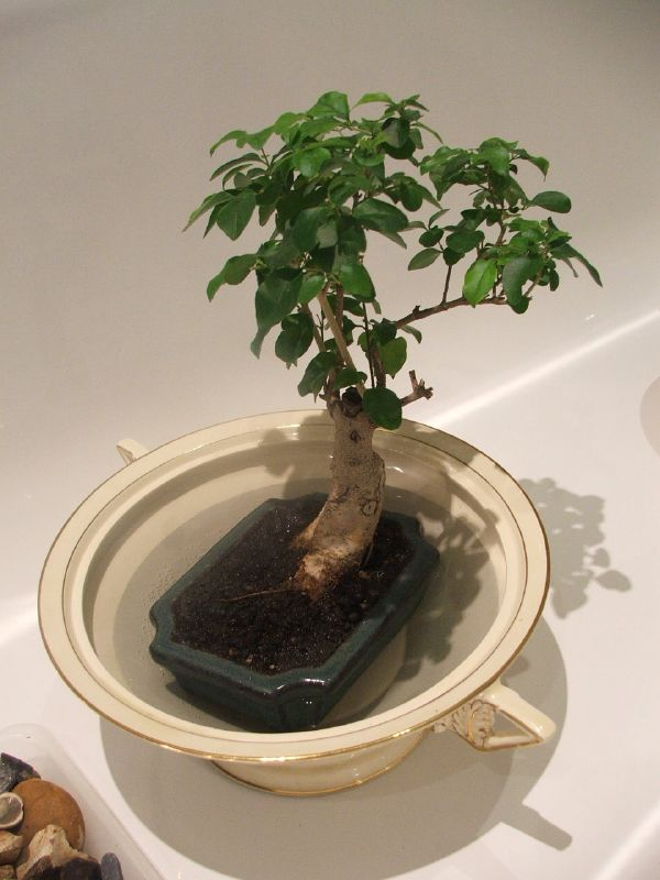 Bathtime...for my Ligustrum sinense, aka Chinese Privet Bonsai tree.